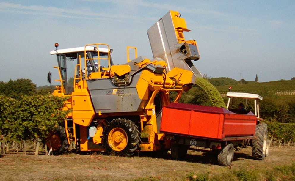 Harvesting Sauvignon Blanc grapes with a Gregoire machine in the Côtes de Duras in South West France